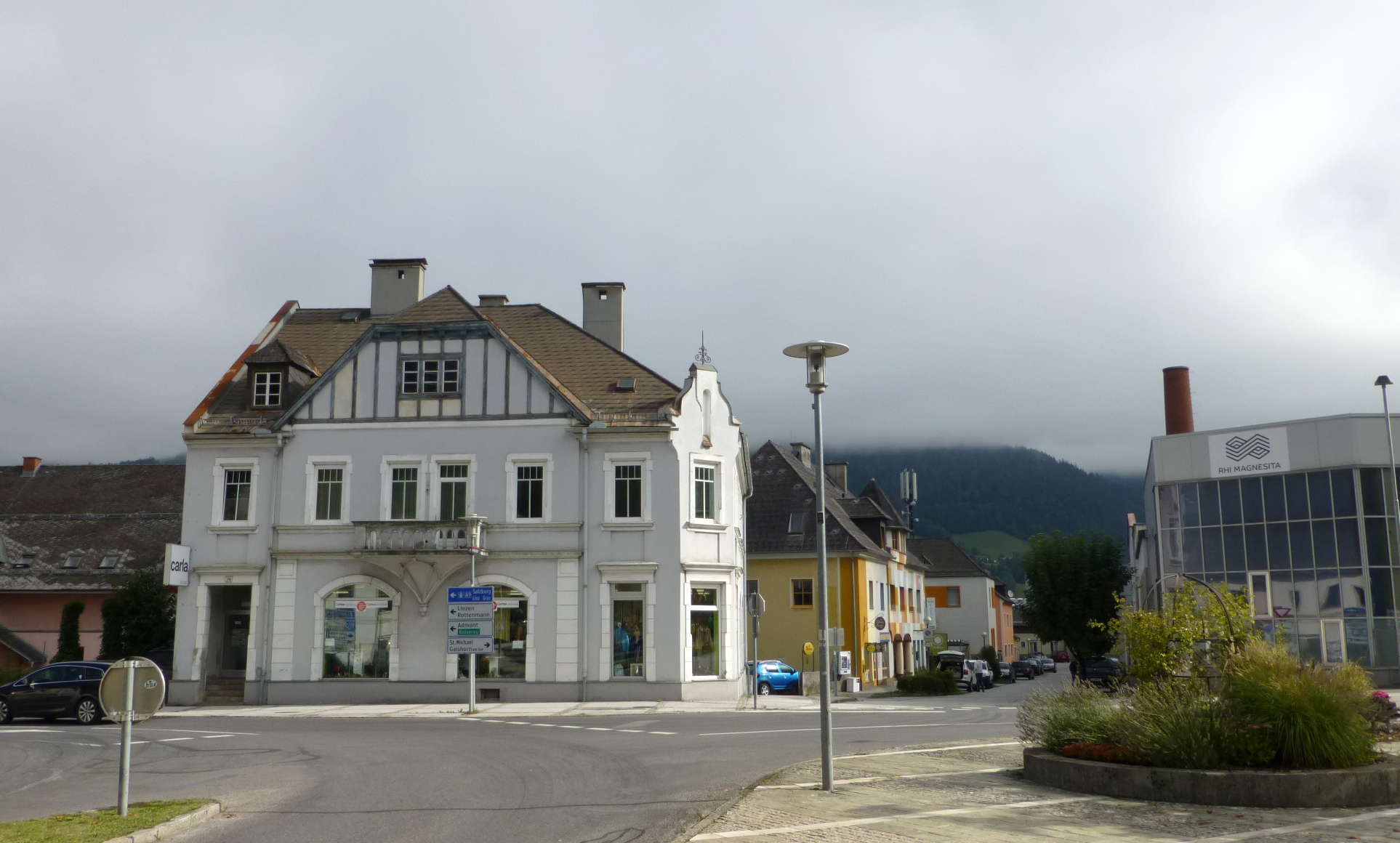 Villa in Trieben and factory RHI Magnesita (refractories), Styria, Austria.